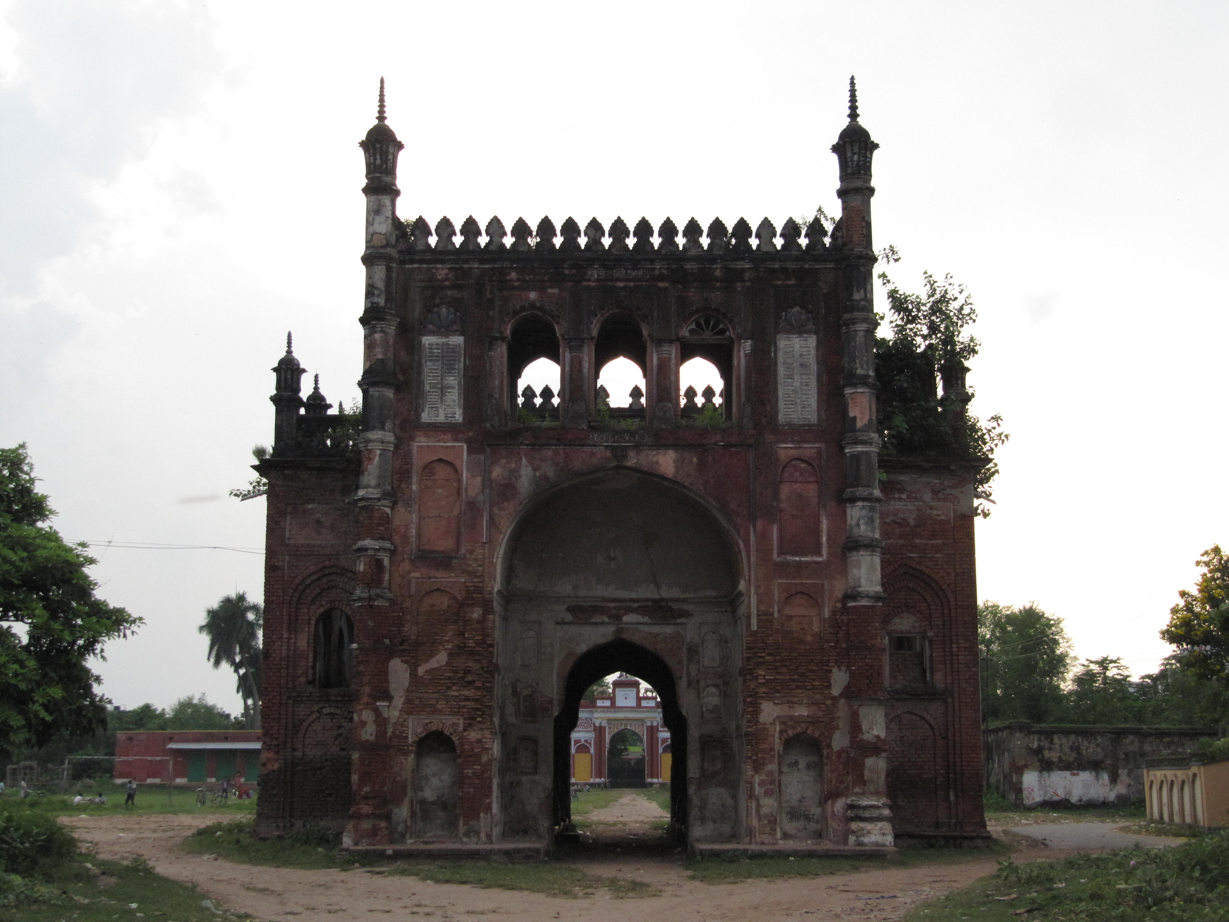 Entrance of Royal Palace, Krishnanagar , Nadia, West Bengal, India